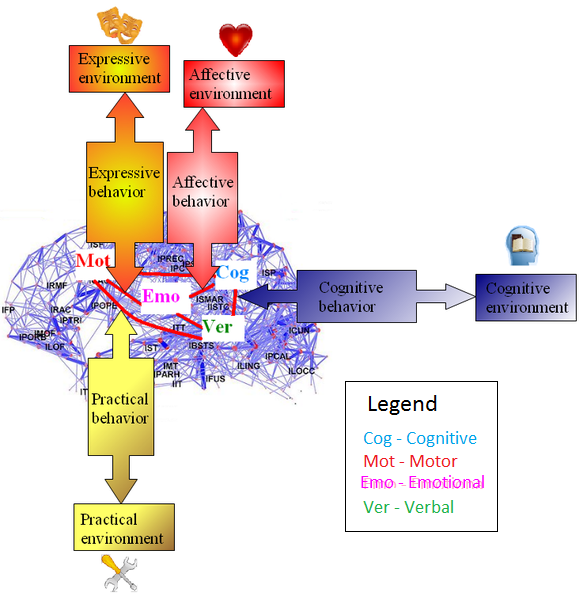 Basic brain structures of personality, and their behavioral and environmental correlates; Cog=Cognitive, Mot=Motor, Emo=Emotional, Ver=Verbal. Original brain map from Hagmann P, Cammoun L, Gigandet X, Meuli R, Honey CJ, Wedeen VJ, Sporns O (2008) Mapping the structural core of human cerebral cortex. PLoS Biology Vol. 6, No. 7, e159.[1] Derivative work by Tekks based on Tapu, CS (2001) Hypostatic Personality: Psychopathology of Doing and Being Made, Premier.